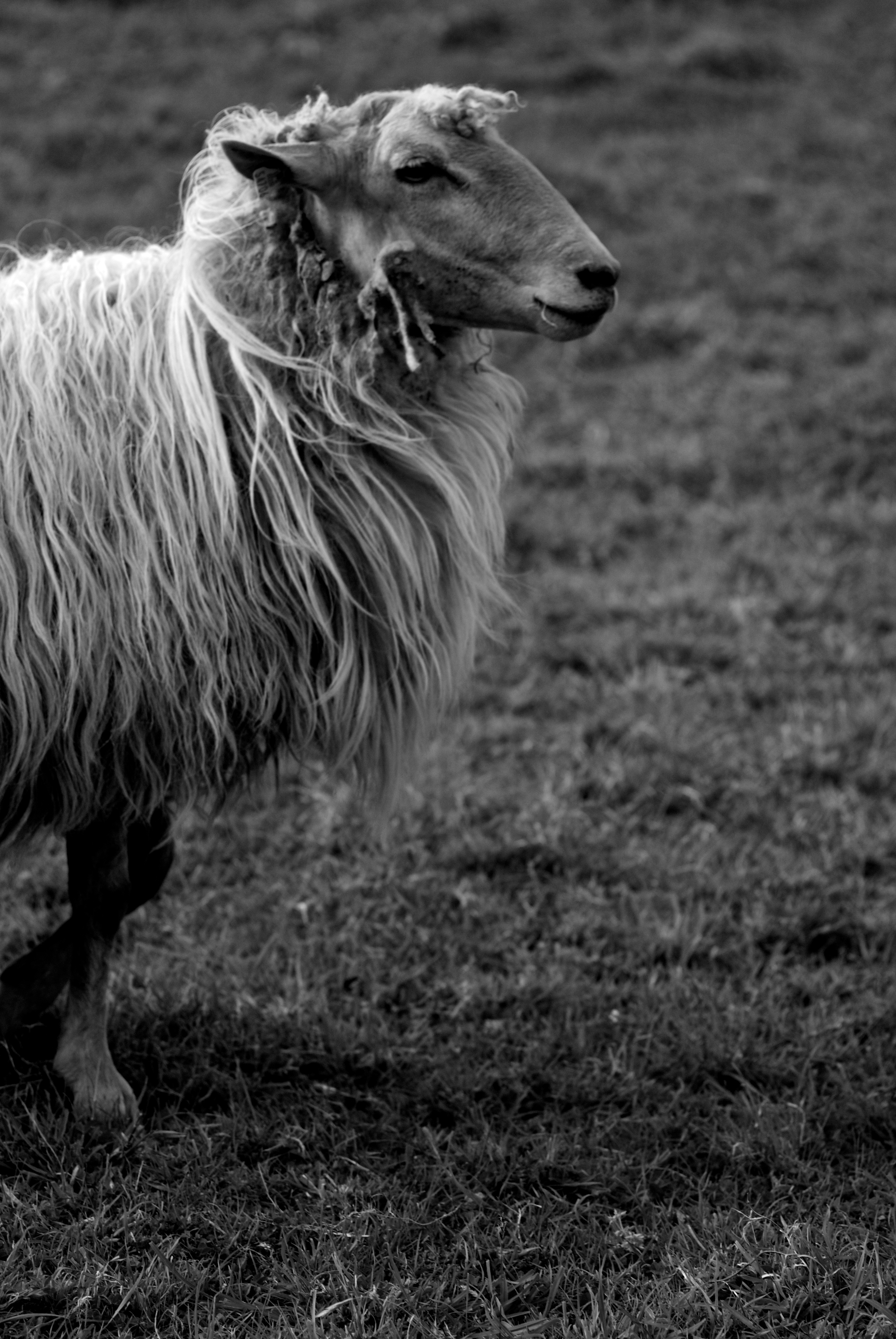 Latxa sheep in black and white.